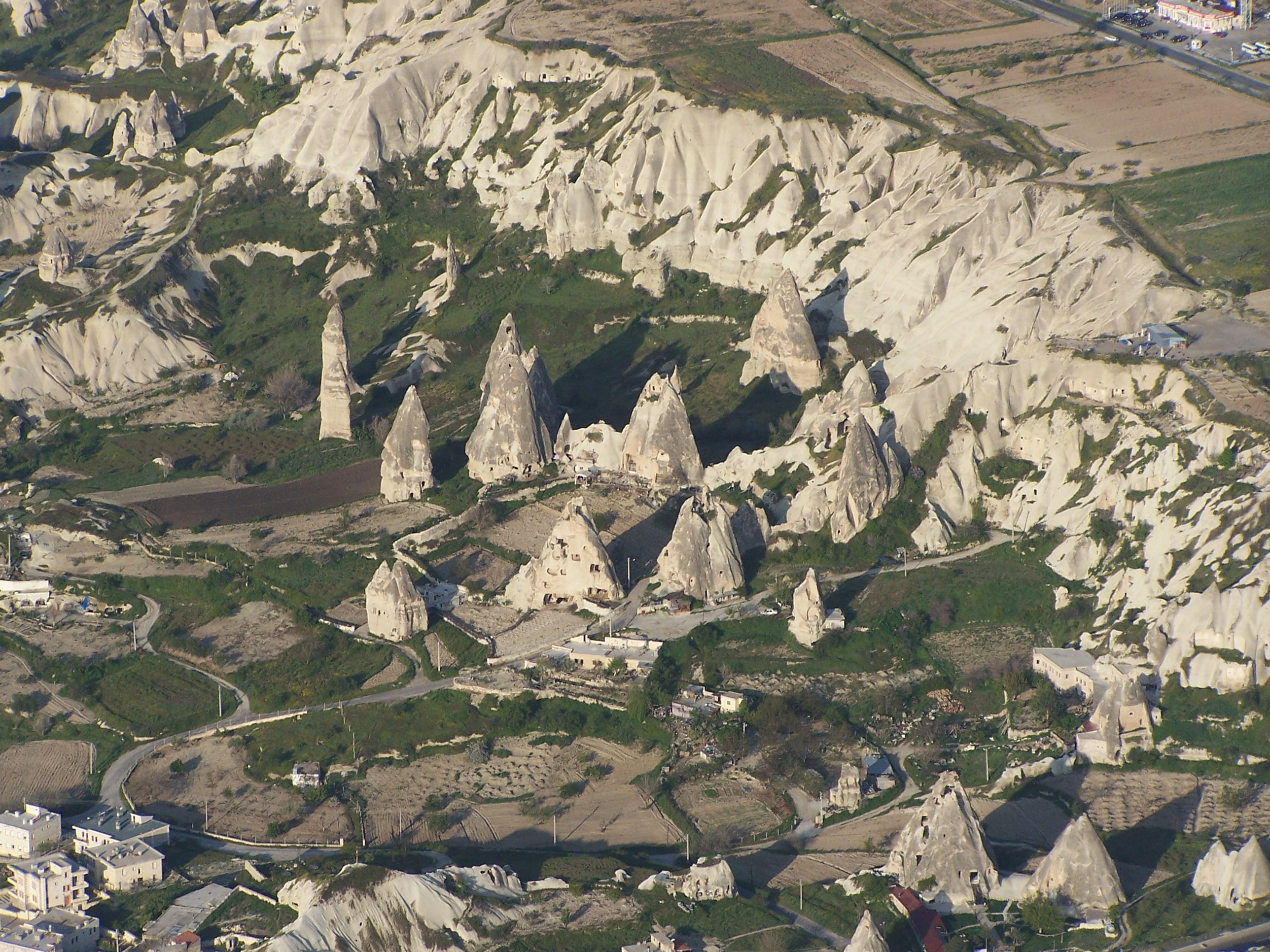 Cappadoccai chimneys from balloon